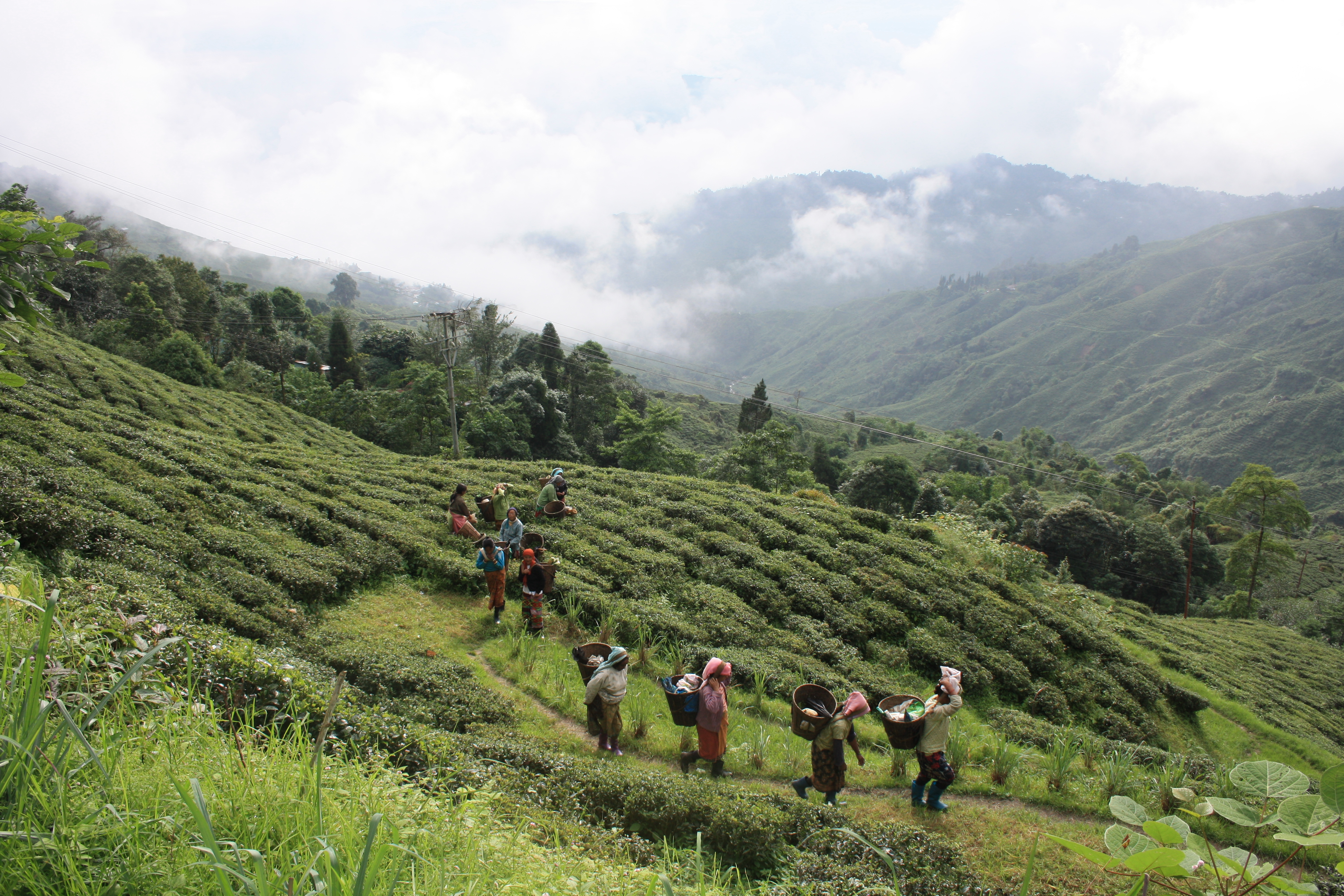 Women carry tea leaves they just harvested in baskests on their backs. Taken on a tea plantation in the Darjeeling area from the roadside of NH 55 (aka Hill cart road)